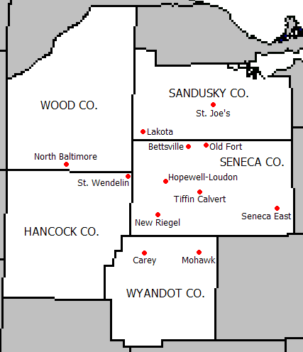 Same image as before, modified to include Lakota High School for the 2009-10 school year. [1] 2000, US Census